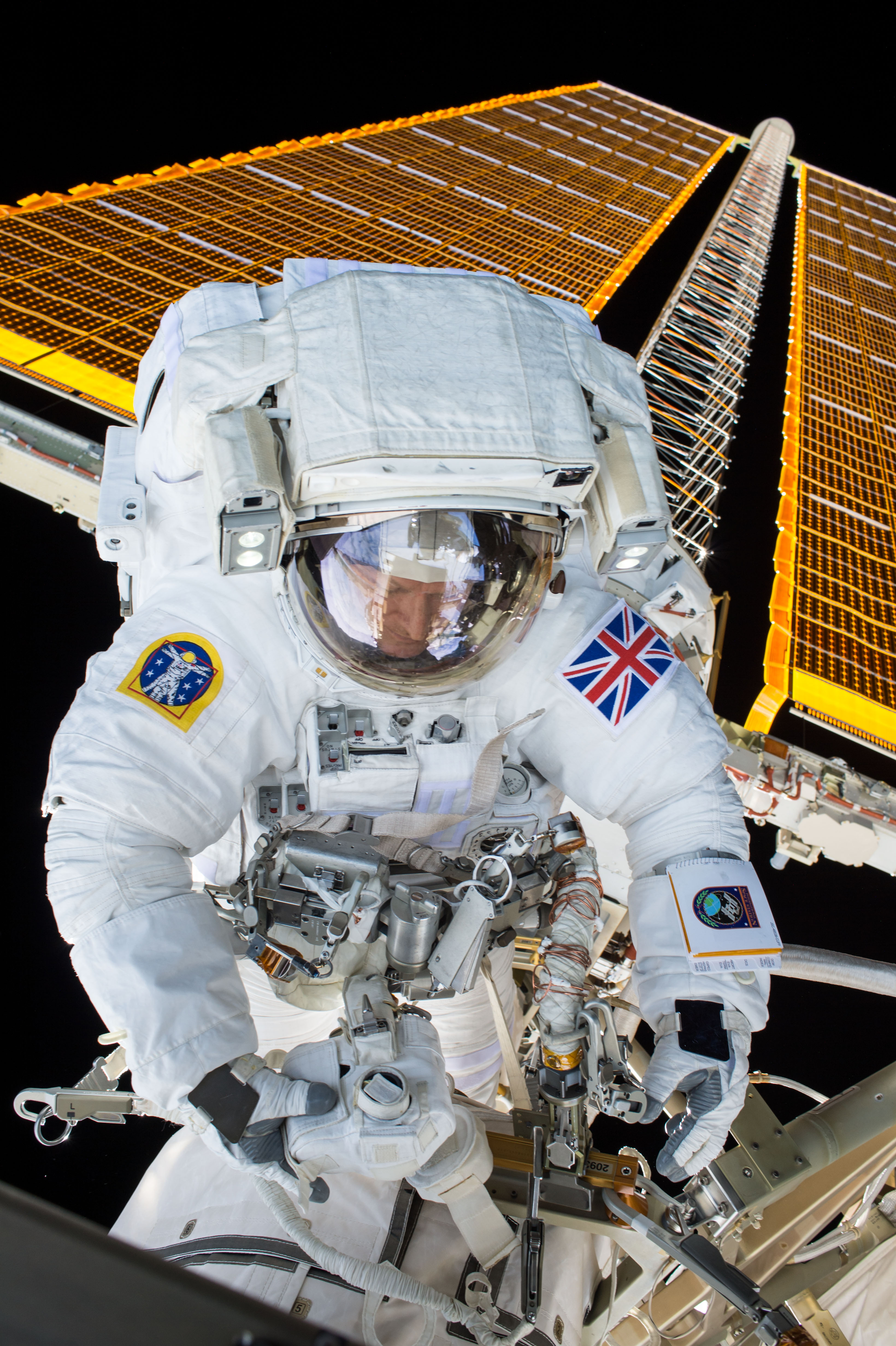 ESA (European Space Agency) astronaut Tim Peake seen during his first spacewalk. Peake and NASA astronaut Tim Kopra conducted a spacewalk on Jan. 15, 2016 and successfully replaced a failed voltage regulator that caused a loss of power to one of the station’s eight power channels in Nov. 2015. The pair ended its spacewalk early after Kopra reported a small water bubble had formed inside his helmet.